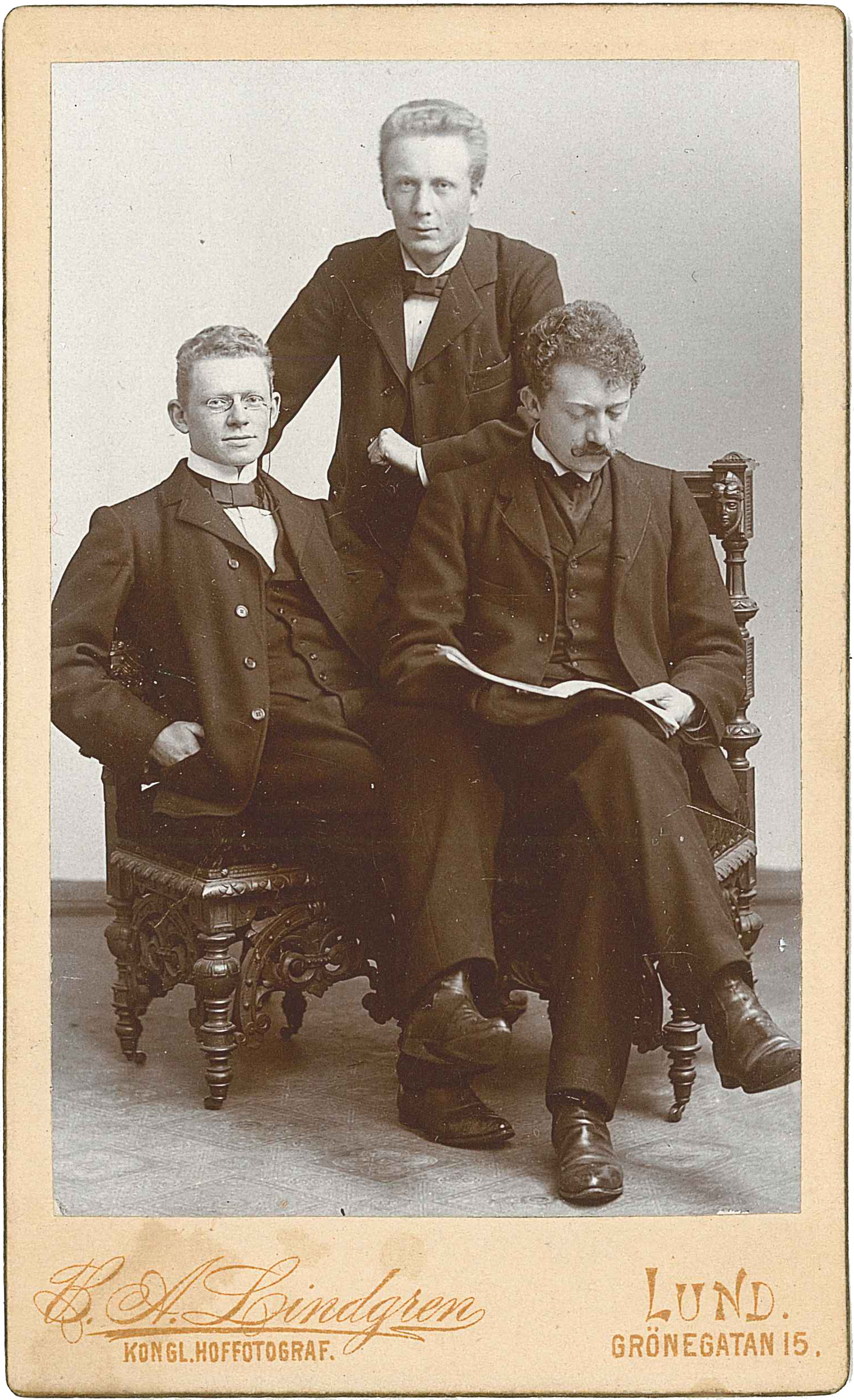 Standing: Mortimer Munck af Rosenschöld (1873-1942), Swedish civil servant and later County governor of Jämtland with two friends (Carl Thulin and Otto Jonasson) during their time as students at Lund University.